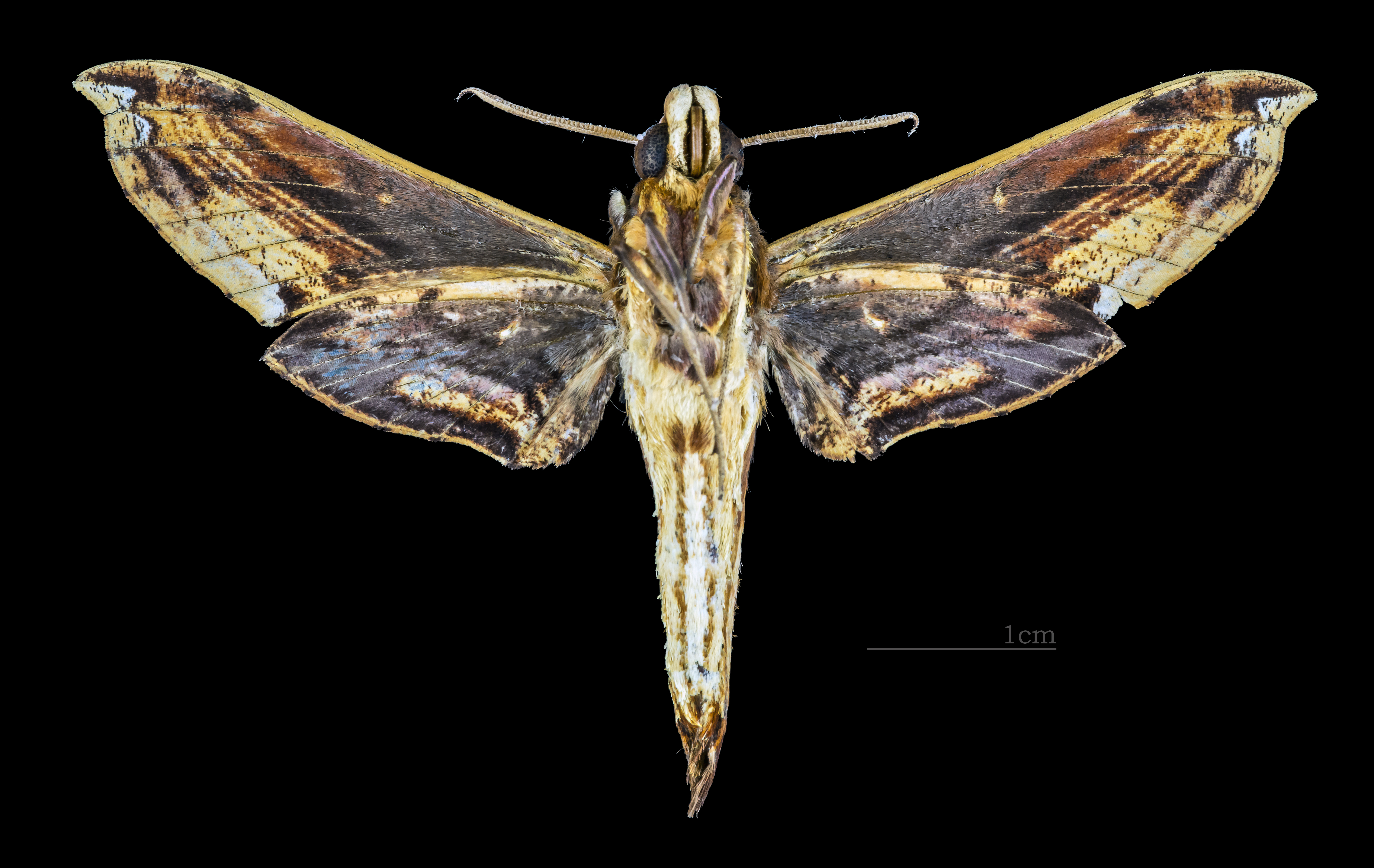 Eupanacra metallica] - △ Ventral side Collection of the Mathematician Laurent Schwartz